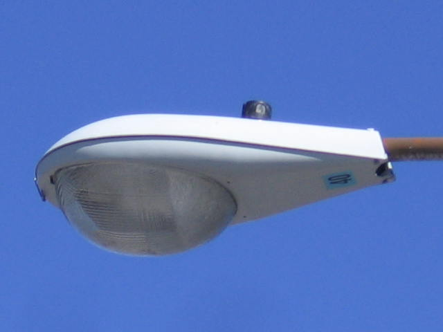 History of street lighting: General Electric M400R2 (1986–1996 Reintroduced in 2008–2016) (150–400 watts)